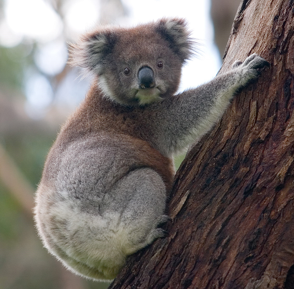 A koala climbing up a tree, Great Otway National Park, Victoria, Australia. Canon 10D, 70-200mm f/2.8L @ f/3.2 1/200s